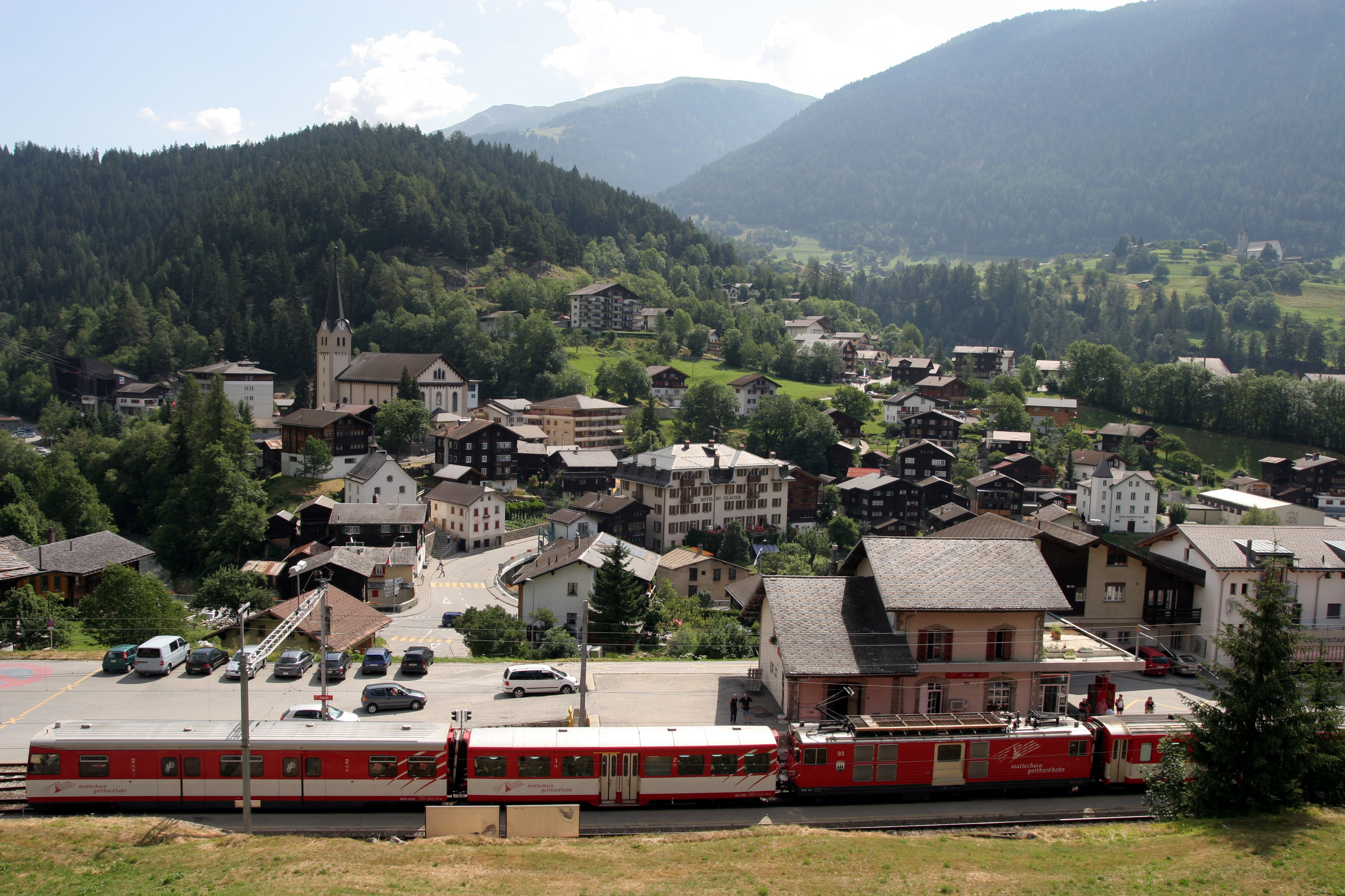 Fiesch in Valais (Switzerland). Railway station and church.